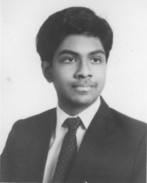 I, P.Yugesh Narayan am the Trustee of Sri Raja-Lakshmi Foundation, and am the owner of the image, which was created by us with full rights given by the person in the image.